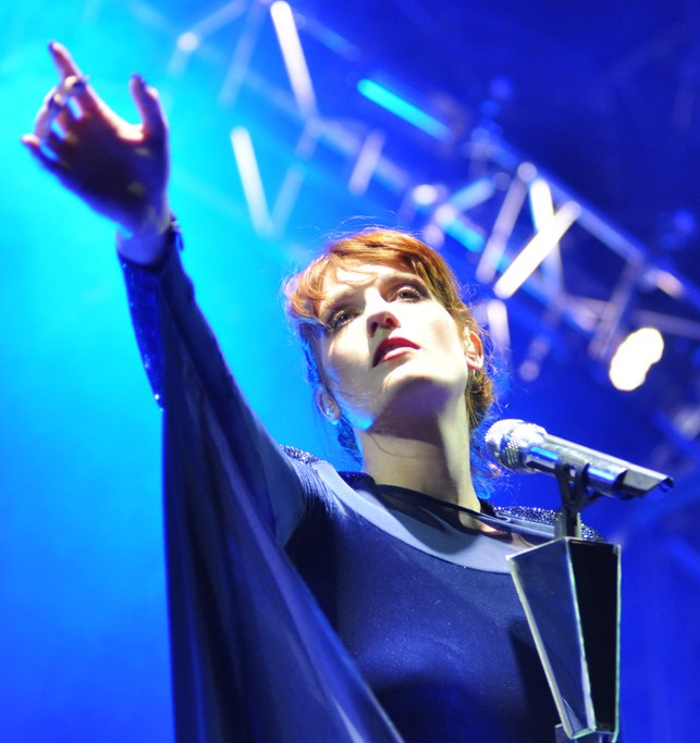 Florence and the Machine performing live at Coachella 2012 (Day three), Sunday, April 22, 2012.